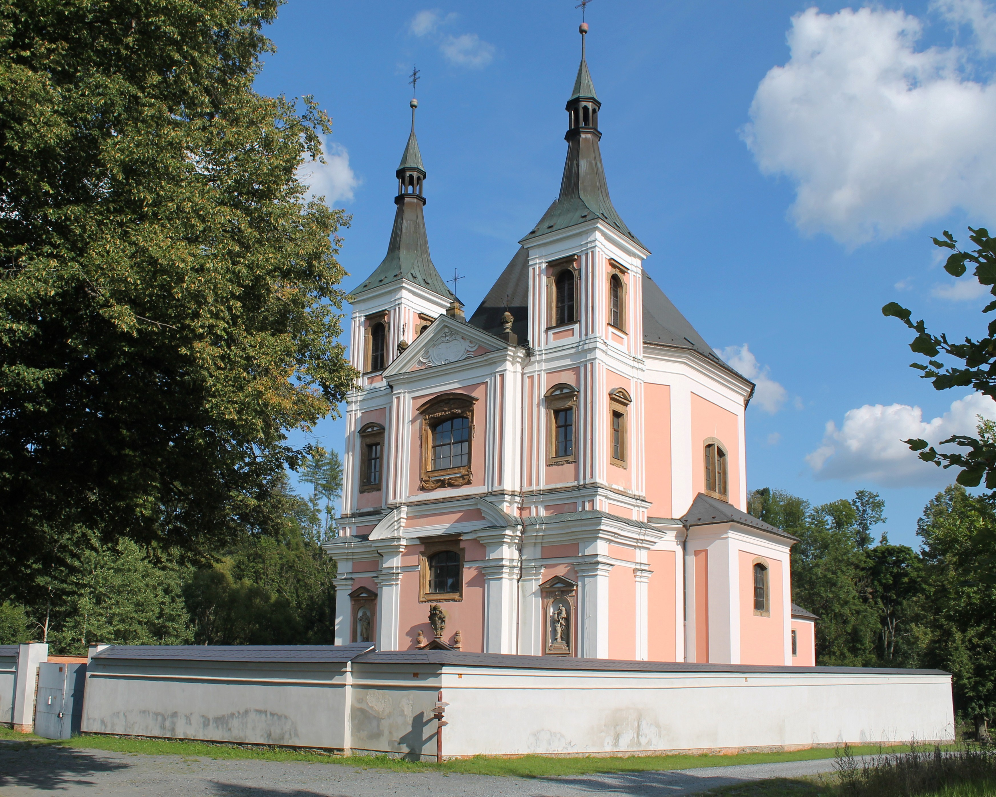 Church of Saint Anne and Saint James the Greater, Stará Voda, Město Libavá, Olomouc District, Czech Republic